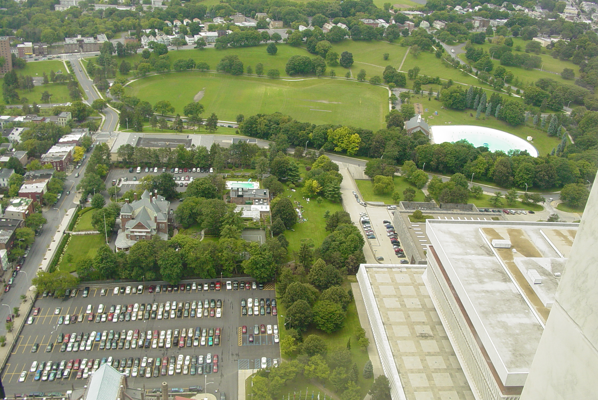 Lincoln Park and the Governor's Mansion as seen from Corning Tower. Albany, New York